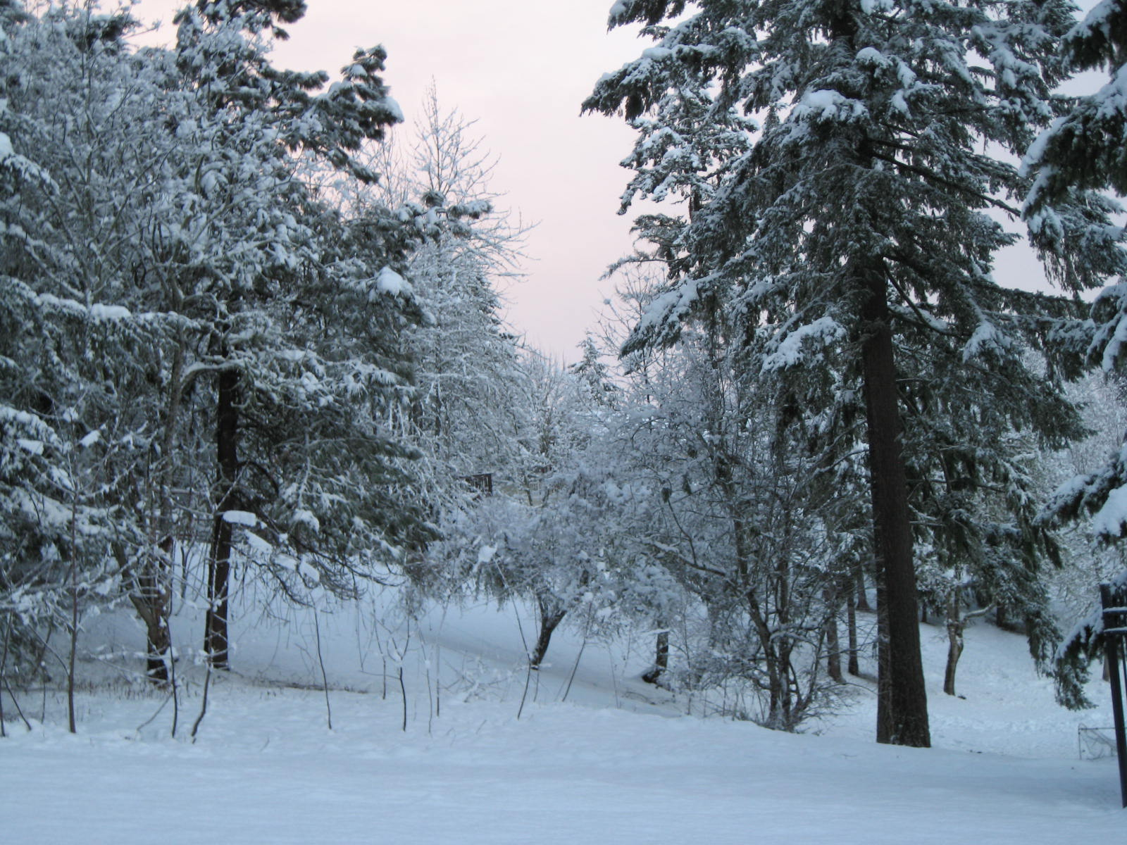 Snow after 8 inches or so fell in Eugene, Oregon